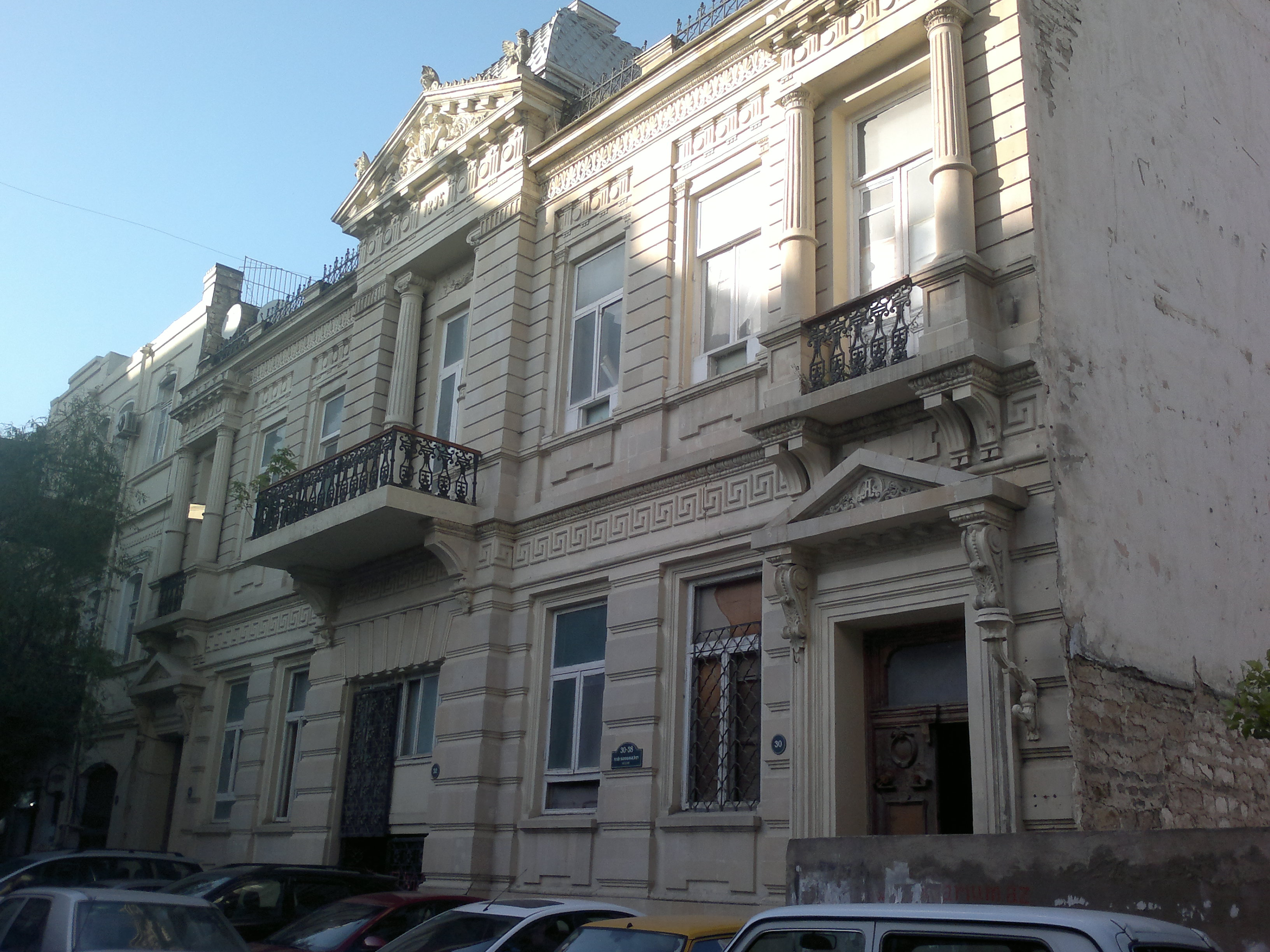 Building on 30 Yusif Mammadaliyev Street. Built in 1896.